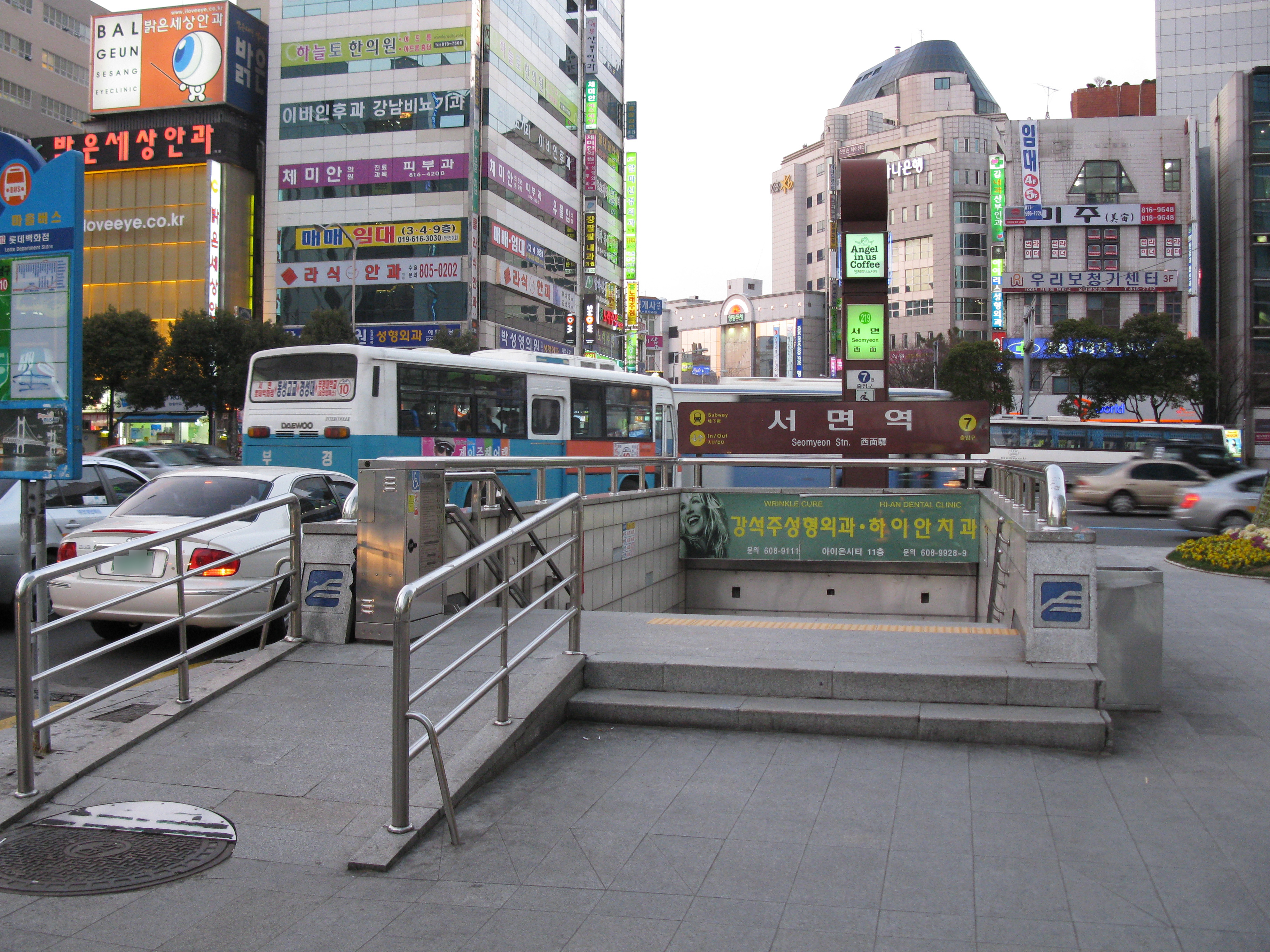 The no.7 entrance to Seomyeon Station on the Busan Subway Line 1 and Line 2 in Busanjin-gu, Busan, Republic of Korea(South Korea)